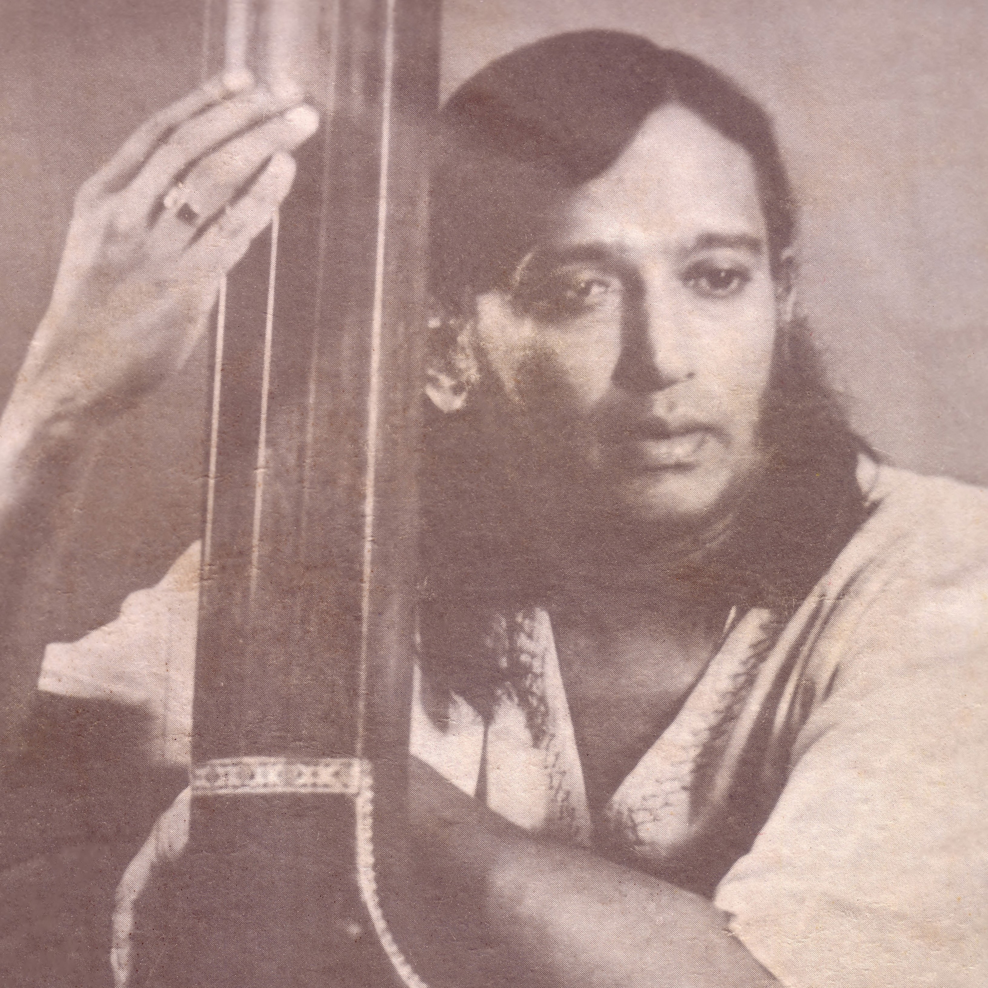 Photographic Portrait of acclaimed Sri Lankan musician,Victor Ratnayaka (වික්ටර් රත්නායක)